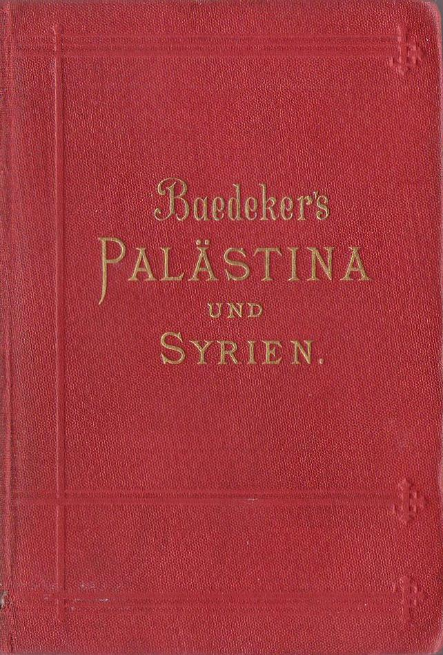 Linen frontcover of the Baedeker's Palästina und Syrien 4th ed. 1897